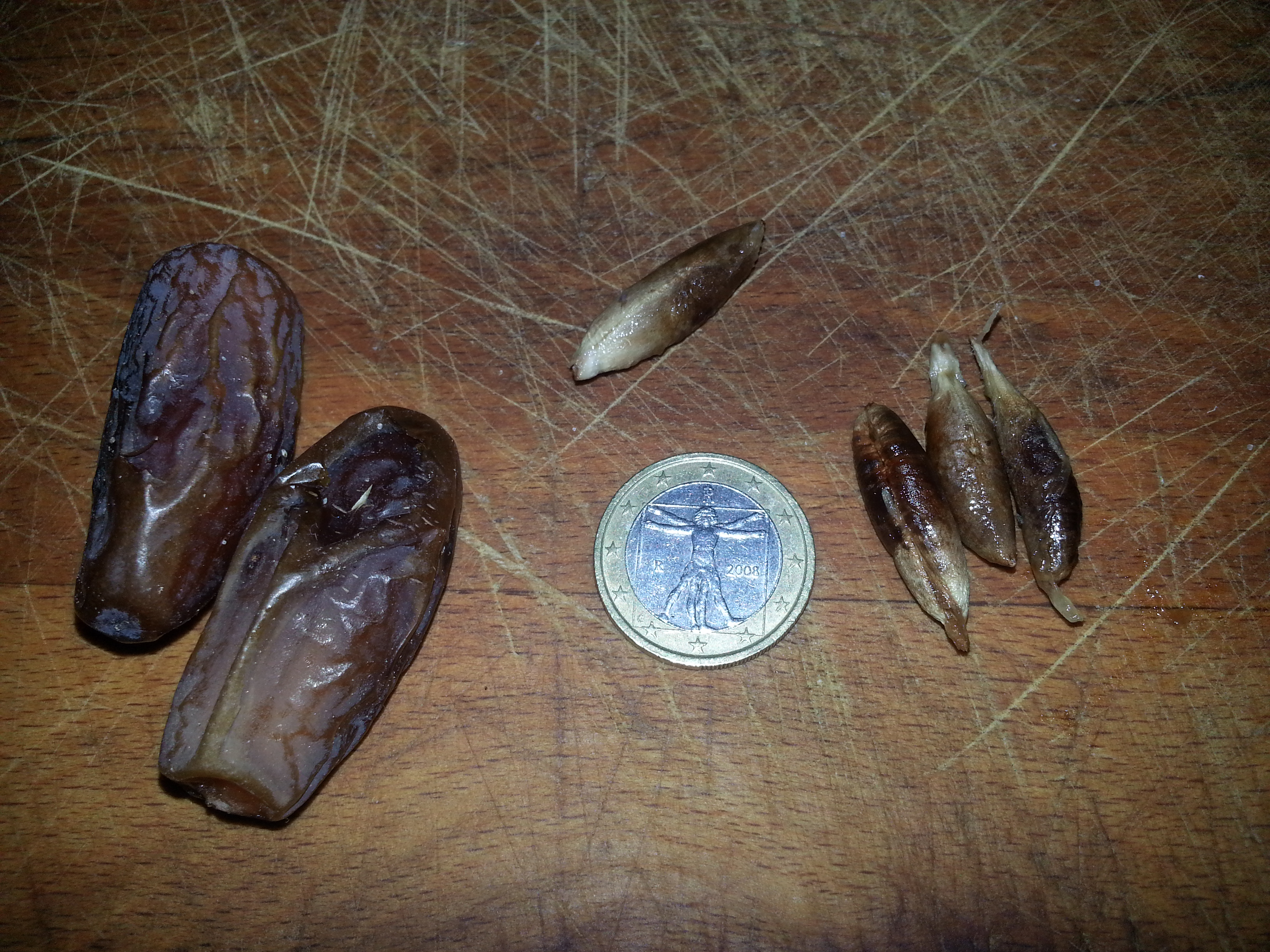 dates